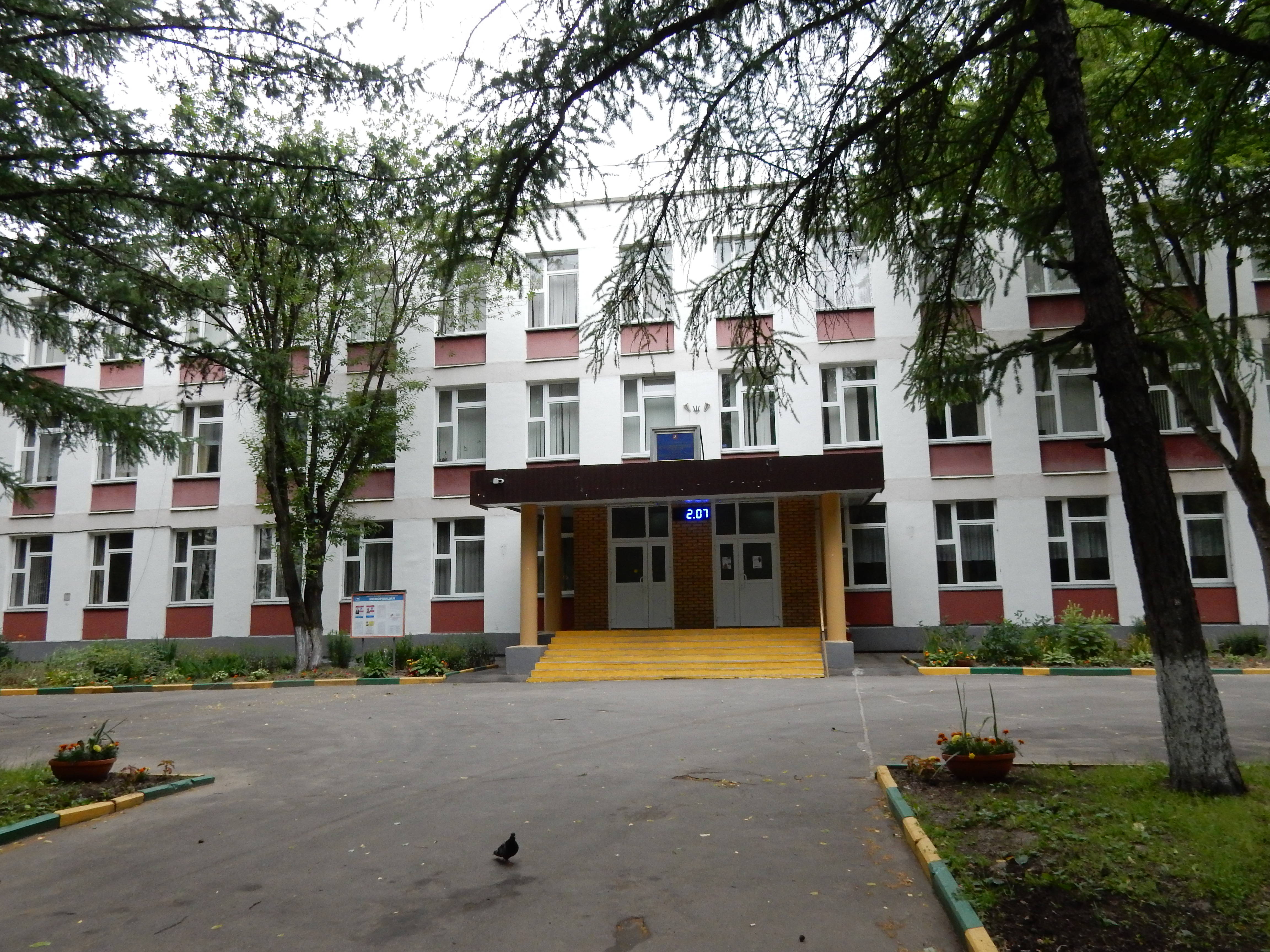 Moscow, Molodtsova Street 4C1. School № 1316 (former № 273).